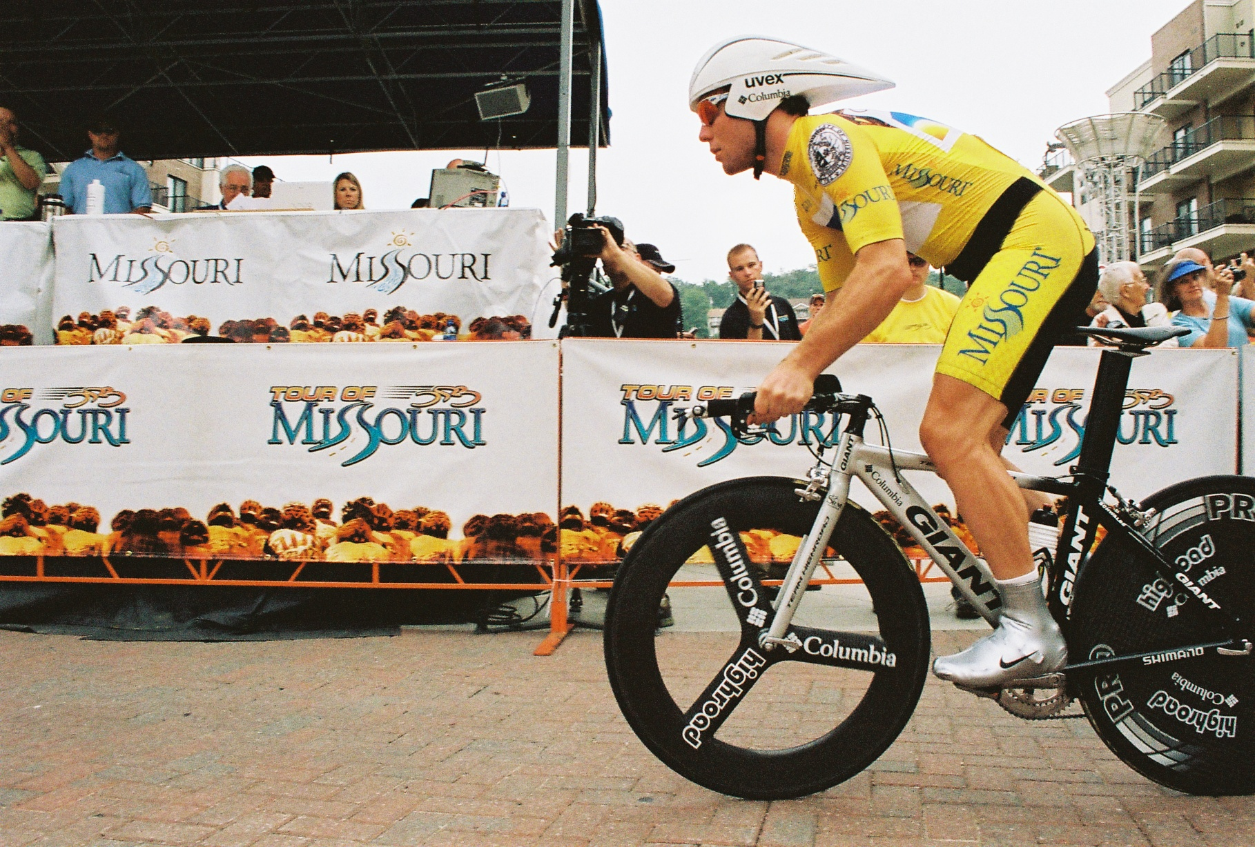 ToM08 Individual Time Trial, Branson, MO - Mark Cavendish Team Columbia